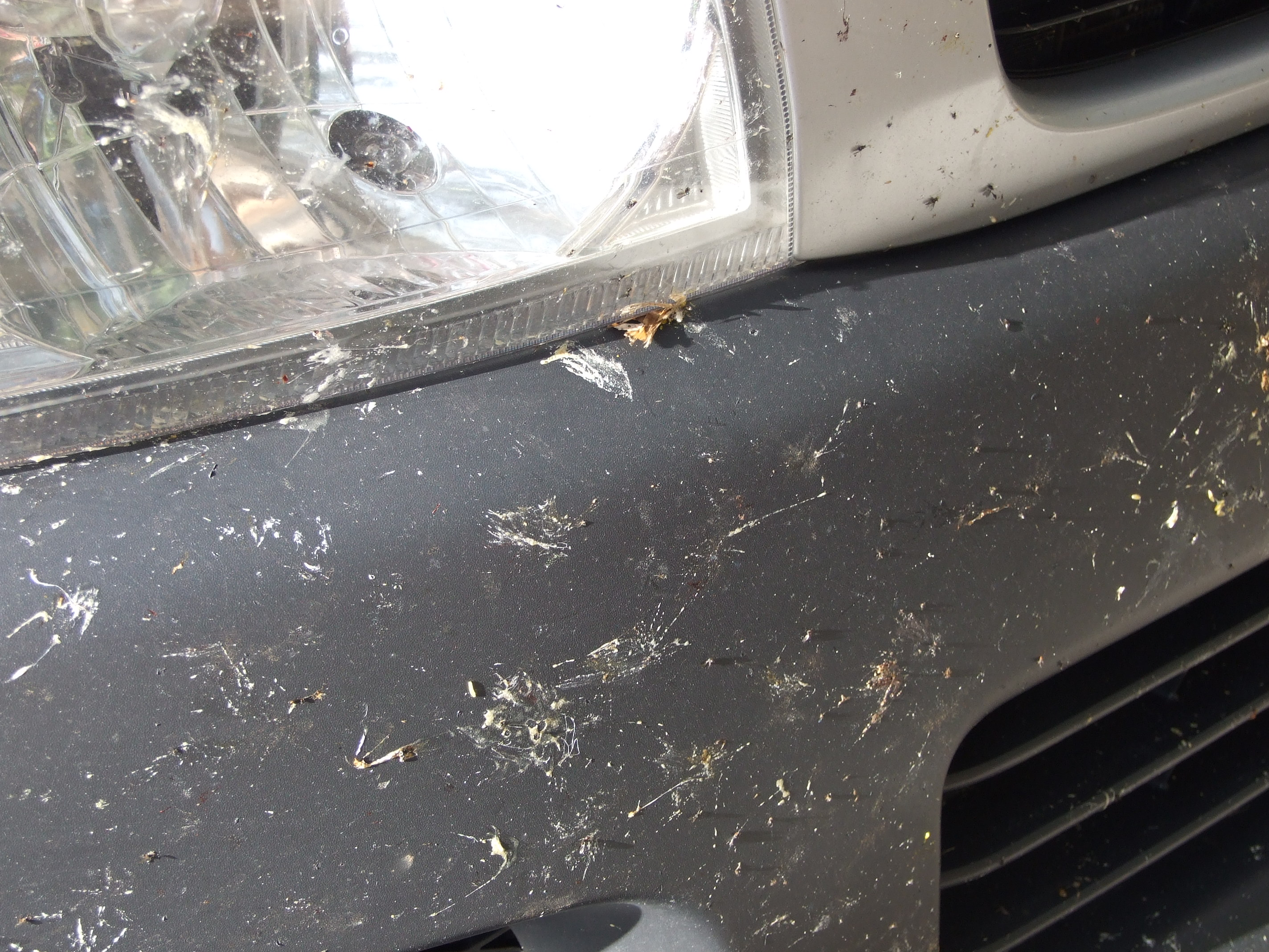 "Bug splats", Katoomba, New South Wales, Australia